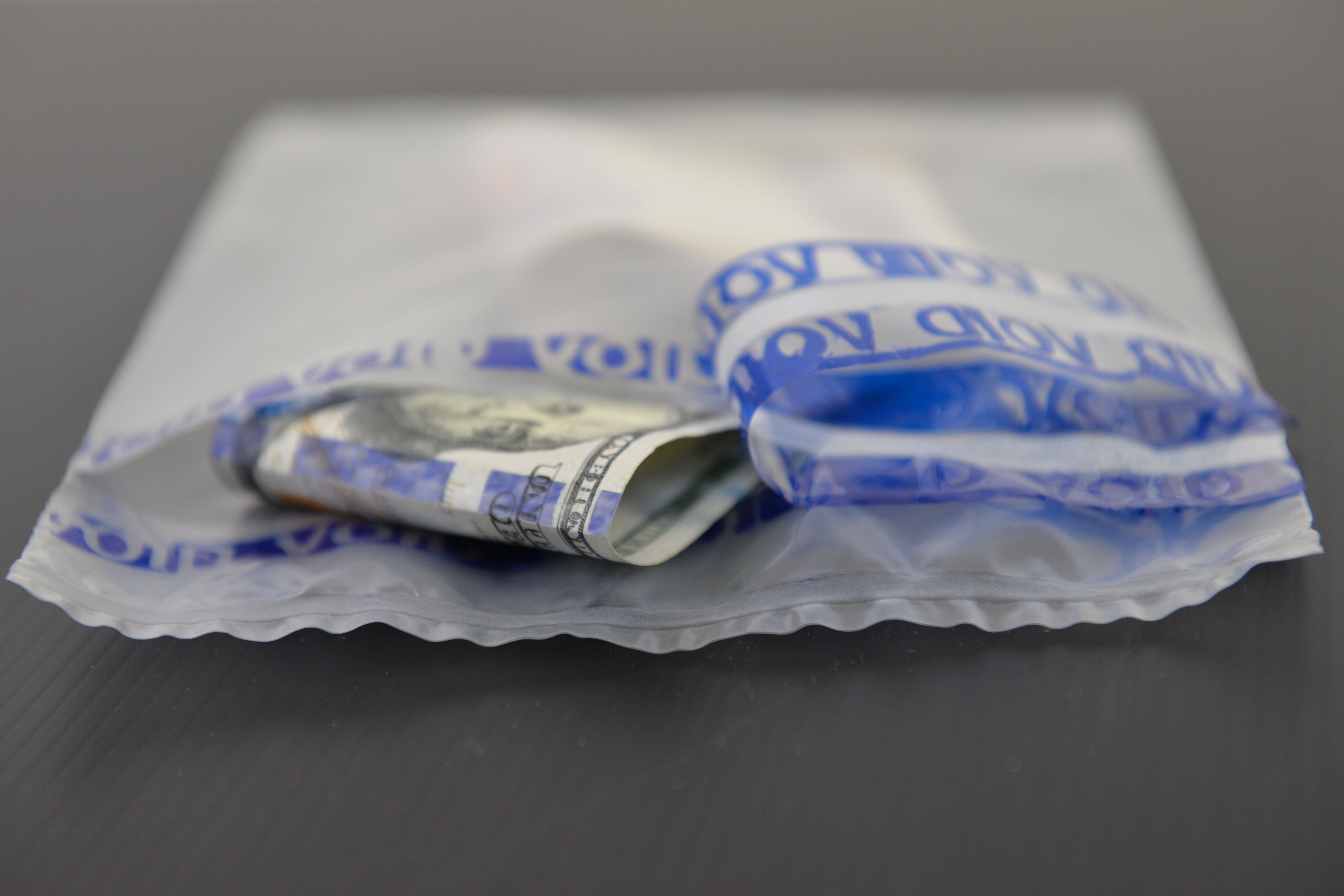 Delivering a secure tamper evident seal to courier, cash, evidence and security bags, designed for use on all films types. Tamper evident tapes can be applied to bags protecting contents with obvious tamper evident messages to alert observers of any unwanted tampering of the bags has taken place. Once the tamper evident tape is applied the bag is secure and can be used to transport and distribute and store valuable items. Adding an instant extra level of security with tapes providing clear visual indication of tampering.